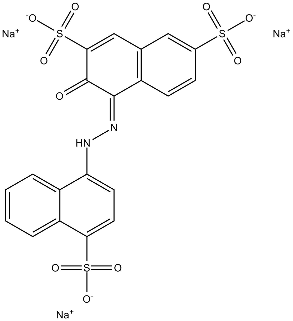 Structure of amaranth (azorubin S)